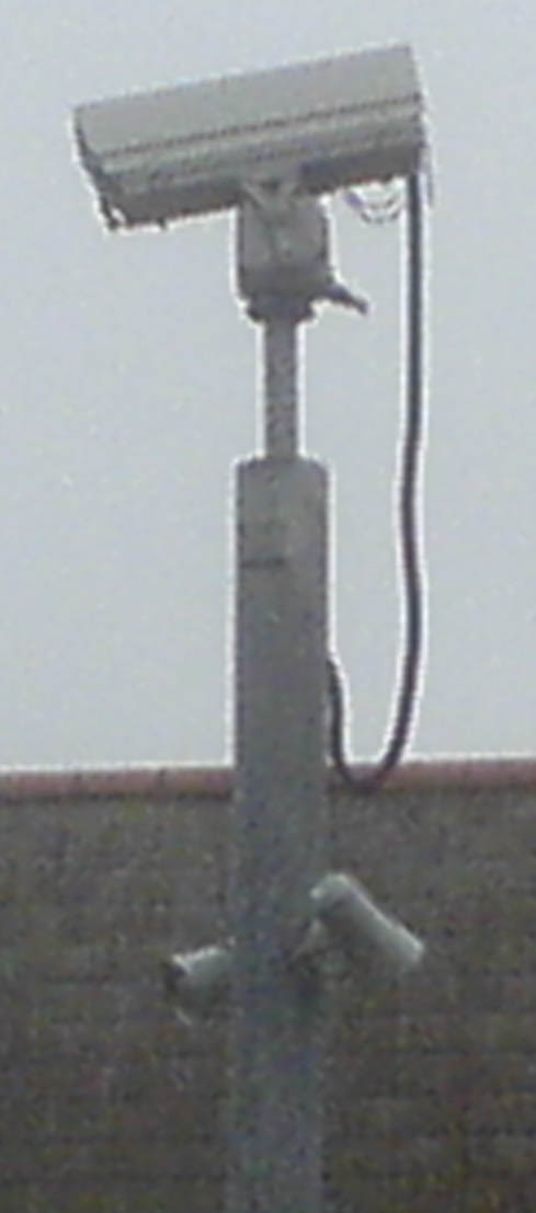 A CCTV camera in Ipswich, UK. Shows an example of cameras with speakers attached.